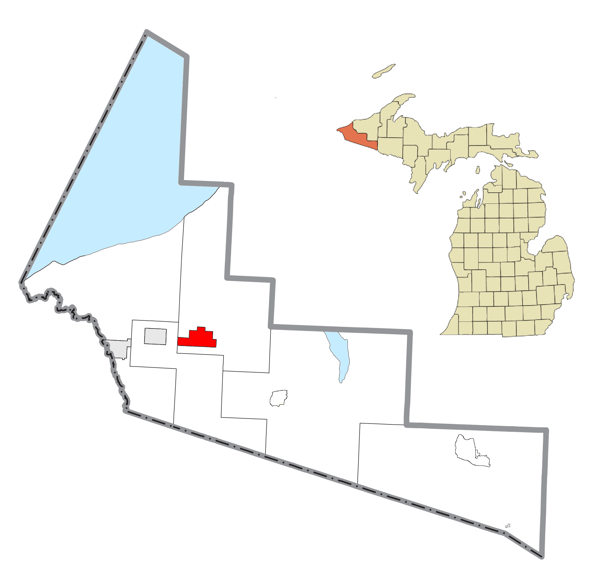 Wakefield, MI